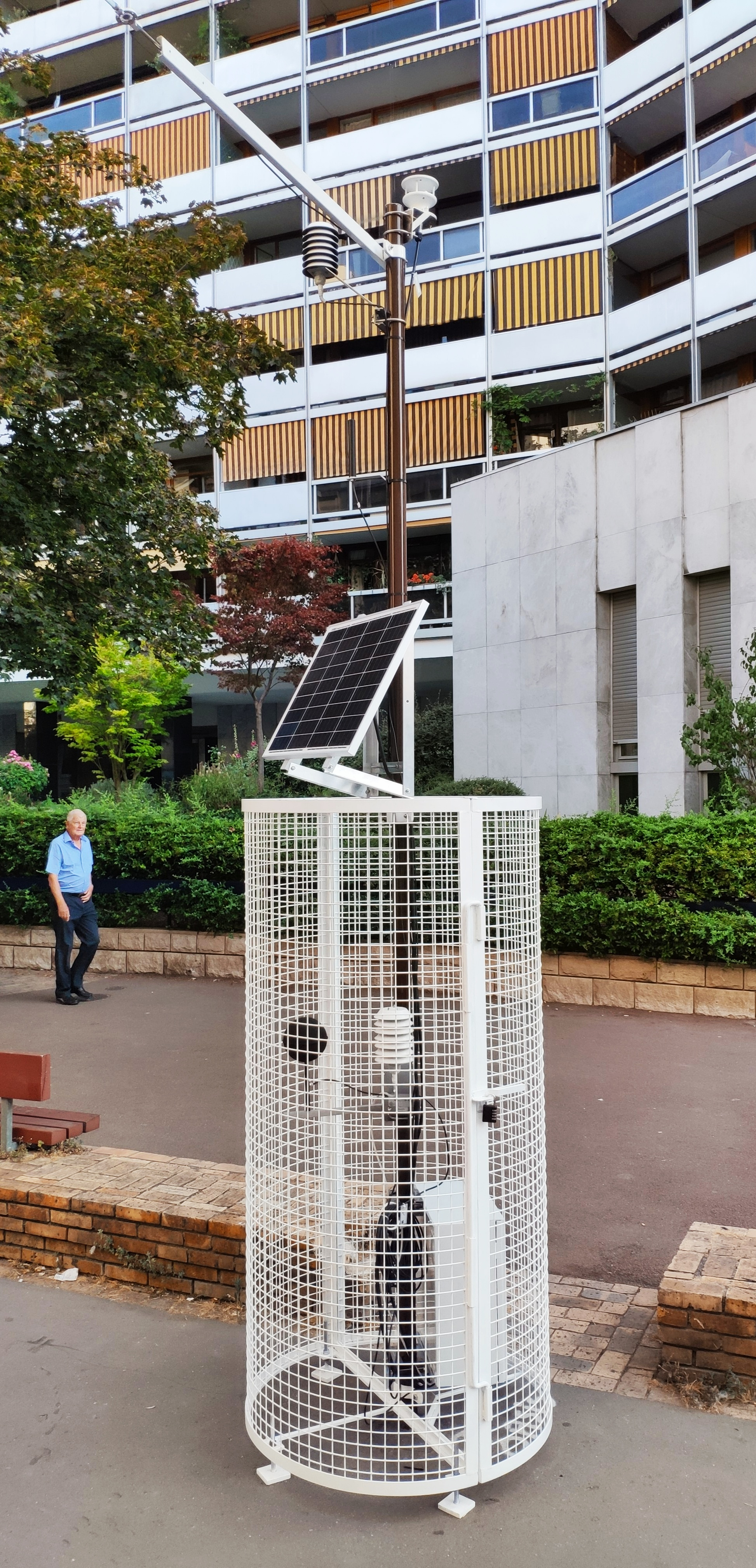 Sensors on the Paris street for the project "Cours OASIS". OASIS letters correspond to Openness, Adaptation, Sensitisation, Innovation and Social ties. The project OASIS aims to adapt Paris School yards to climate warming. This project is part of the Urban Innovative Actions (UIA).